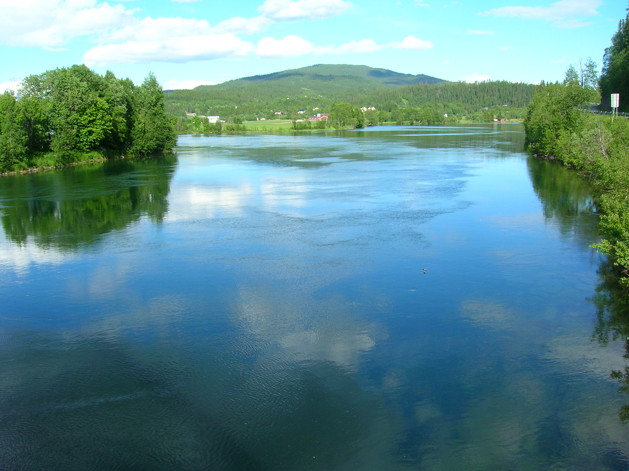 Langvassåga's meeting point with the river Ranelva in Rana municipality, Nordland, Norway. Photo June 22, 2007 with a Nikon Coolpix 5600 5,1 Megapixel camera.